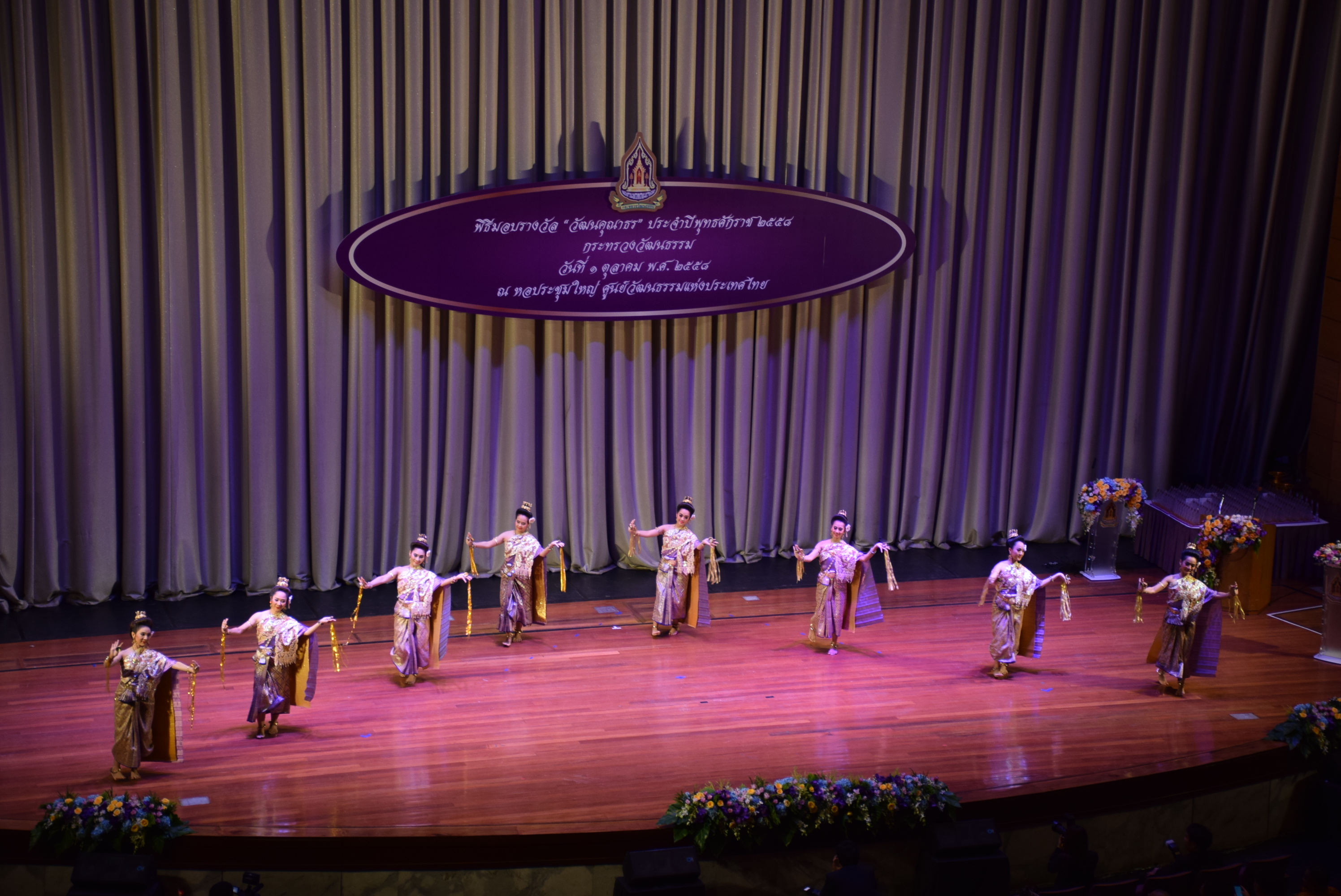 . at Thailand Cultural Centre. Date2015SourceOwn workAuthor ผู้สร้างสรรค์ผลงาน/ส่งข้อมูลเก็บในคลังข้อมูลเสรีวิกิมีเดียคอมมอนส์ - เทวประภาส มากคล้าย Permission (Reusing this file)